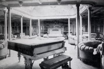 First Class Drawing Room (Gesellschaftszimmer) of the Kaiser Wilhelm II